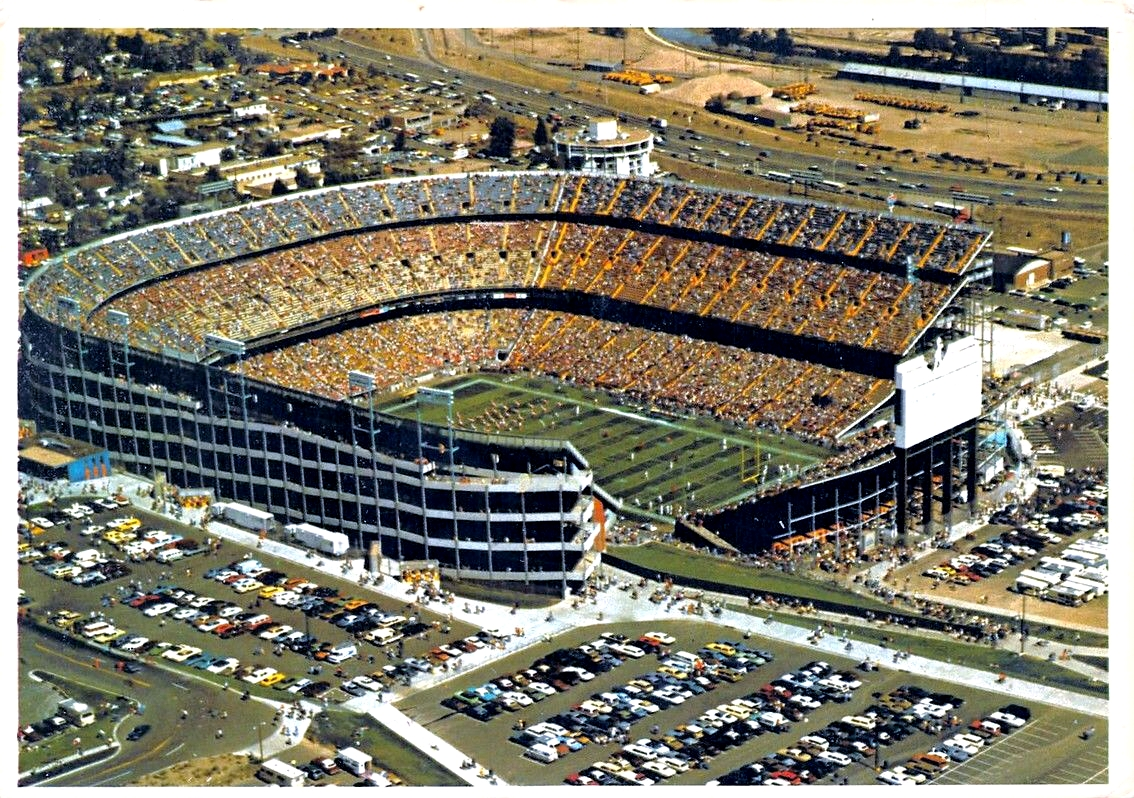 Color photochrome postcard depicting an aerial view of Denver Mile High Stadium. This postcard is postmarked on July 31, 1984. The back of the postcard reads: Mile High Stadium Color by Mel Schieltz Distributed by G. R. Dickson Co., 932 Inca St., Denver, Co. 80204 Plastichrome COLOURPICTURE BOSTON, MASS. 02130